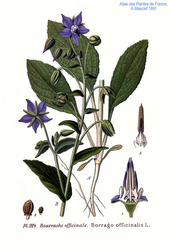 Borago officinalis L.